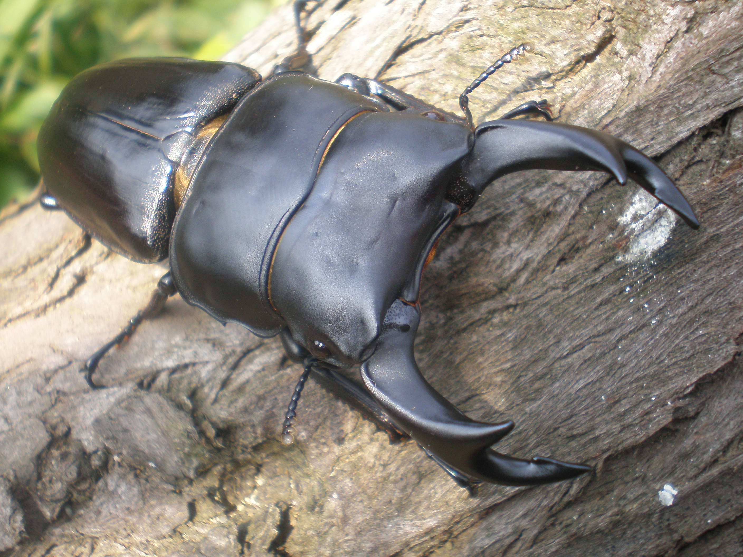 Dorcus hopei binodulosus